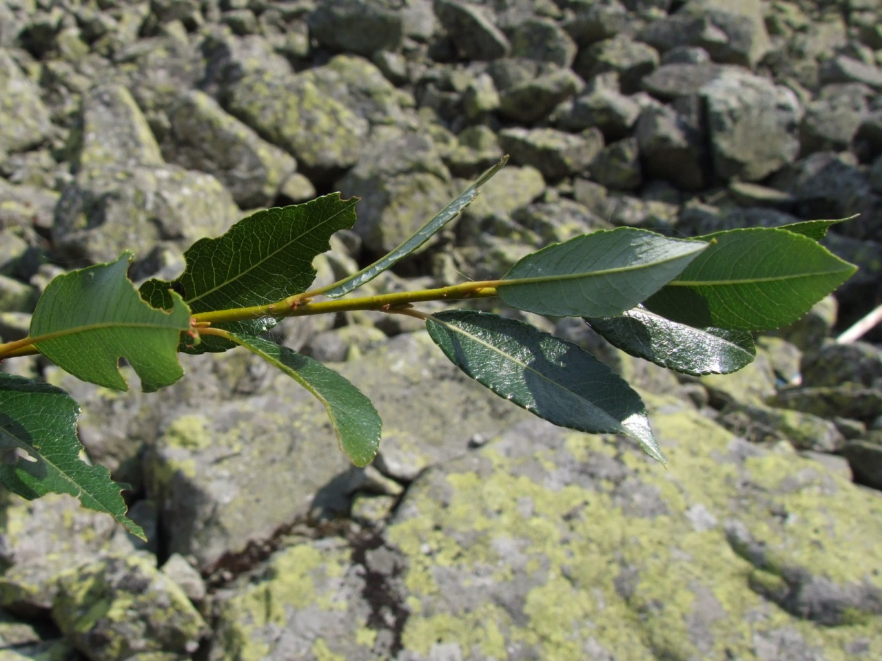 Salix helvetica. Habitat:High Tatra Mountains, Dolina Staroleśna